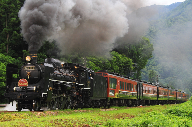 JR East Class C57 steam locomotive C57 180 hauling the SL Banetsu Monogatari trainset on the Banetsu West Line